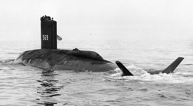 View showing the "X" configuration tail planes fitted in 1960-61.